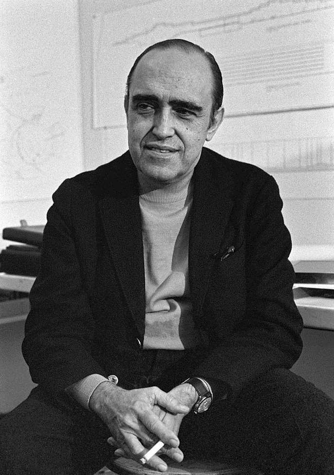 Brazilian architect Oscar Niemeyer (Oscar Ribeiro de Almeida Niemeyer Soares Filho) posing smiling in his studio. The Italian publisher Giorgio Mondadori has recently commissioned the architect to build the new headquarters of Gruppo Mondadori. Segrate, 1968 (Photo by Mondadori Portfolio via Getty Images)